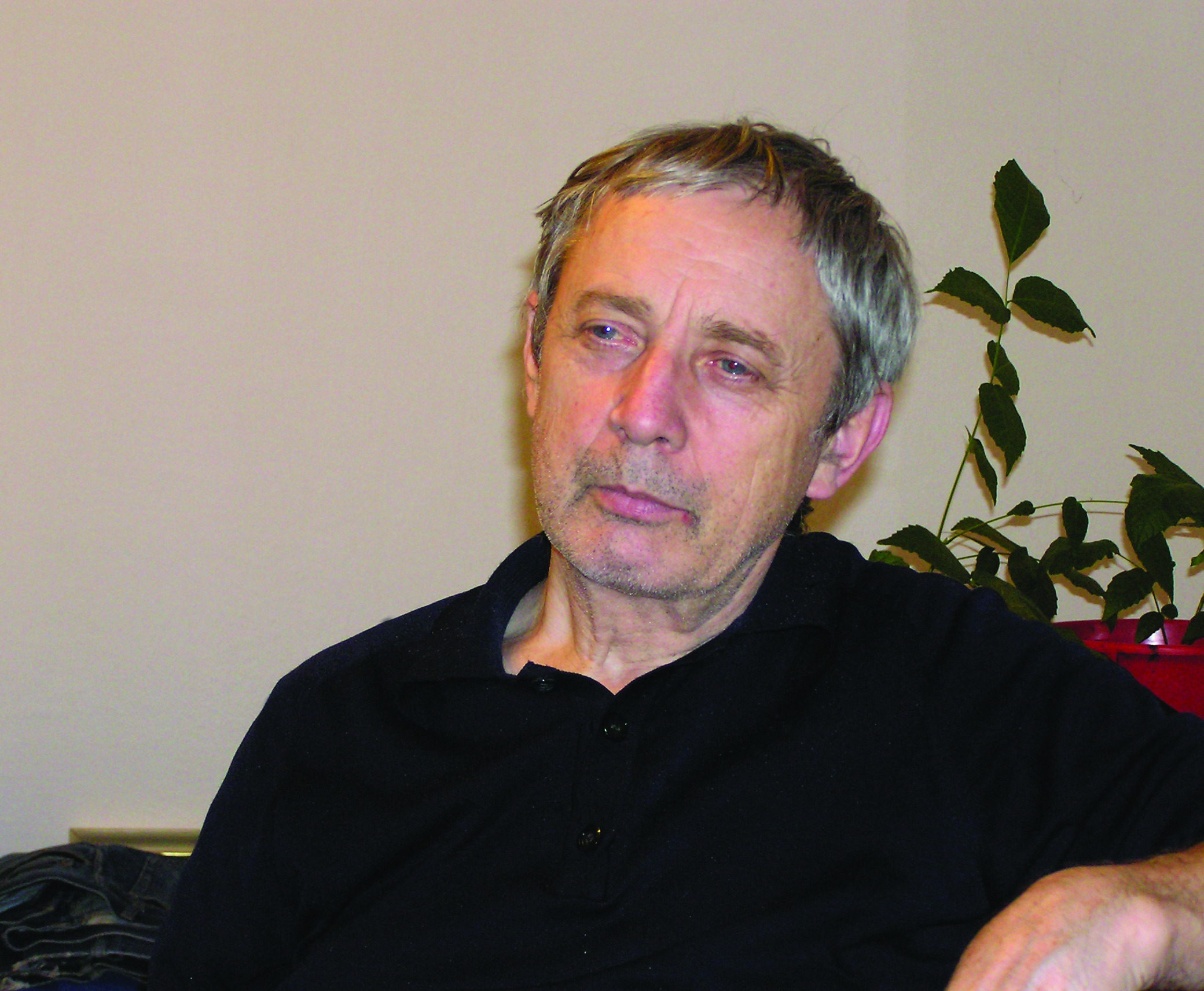 Prof. RNDr. Ivan Baník, PhD.